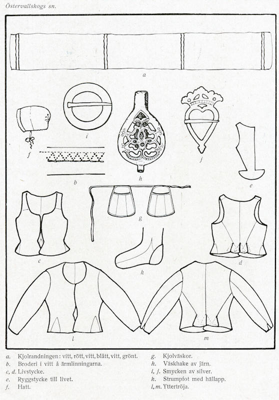 Ritning av Östervallskogs kvinnodräkt